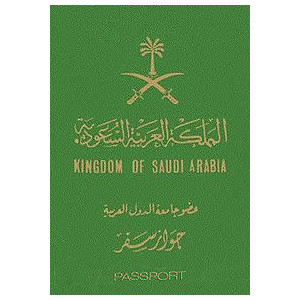 Cover of a Saudi Arabian Passport